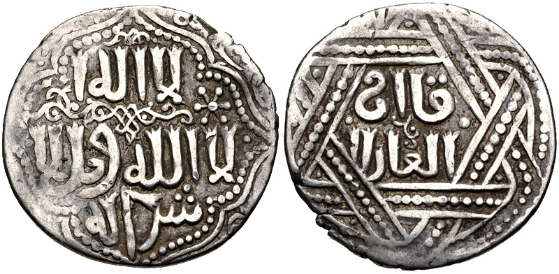 ISLAMIC, Mongols. Ilkhanids. temp. Abaqa. AH 663-681 / AD 1265-1282. AR Dirham (20mm, 2.76 g, 3h). qa’an al-’adil type. [Tiflis mint]. [Dated AH 663 (AD 1265)]. Diler A-99; Album 2134; ICV 2074 (Anonymous). VF, toned.